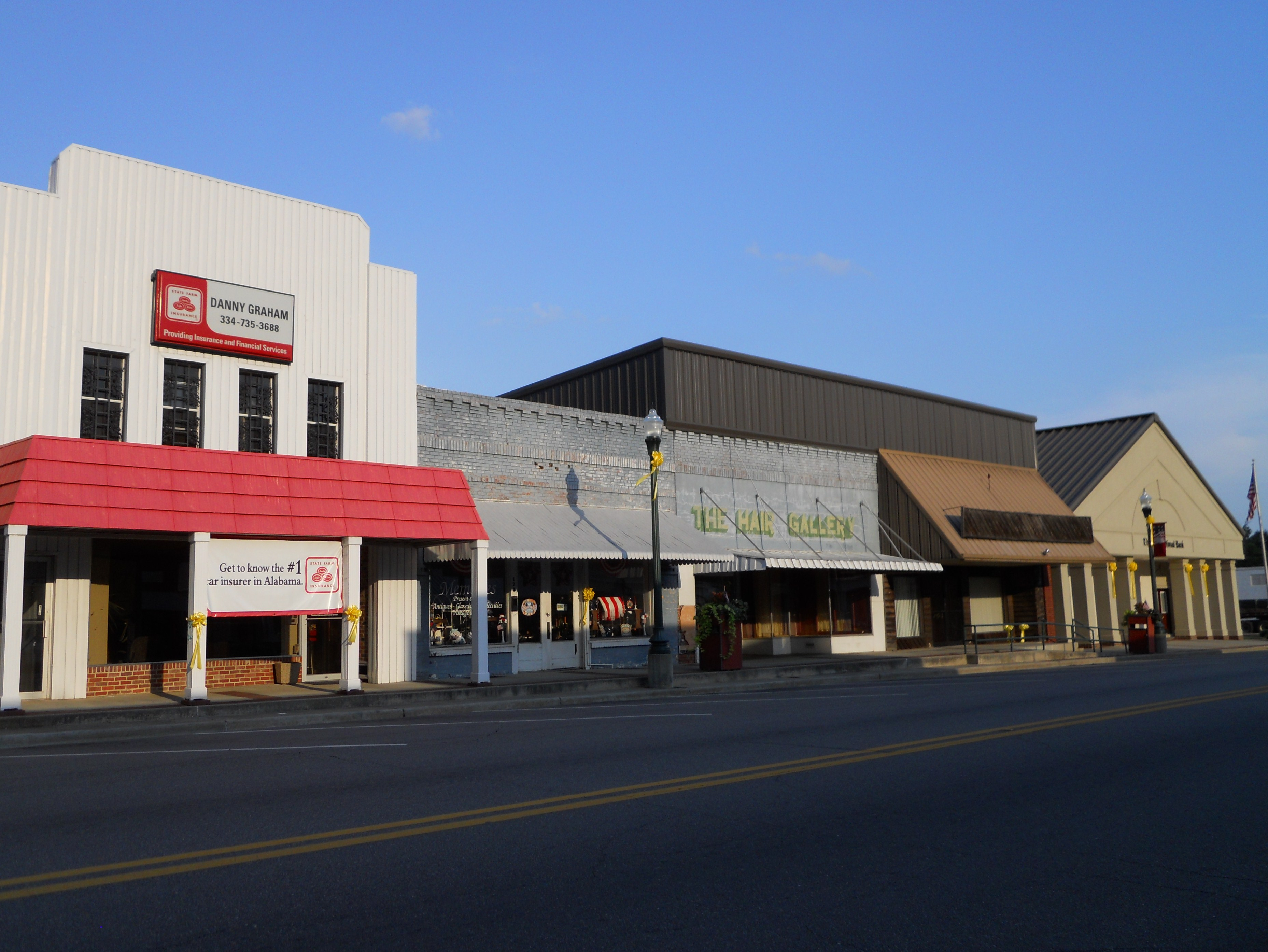 This is a photograph of Brundidge, Alabama.